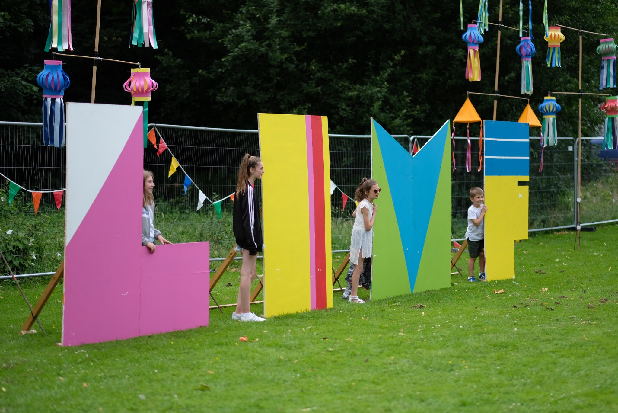 LIMF branding featured in the Family Zone, July 2017